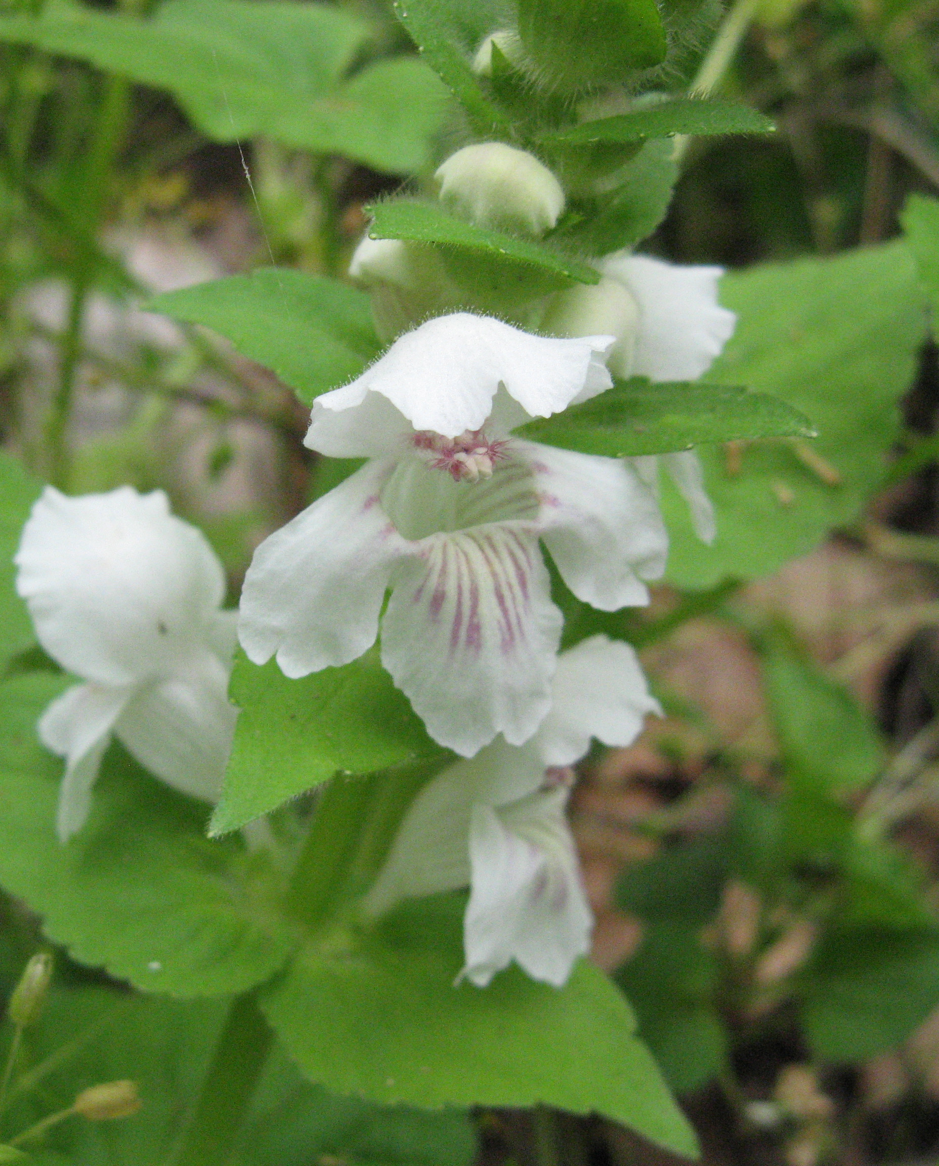 Synandra hispidula, rich mesic bottoms of Lower Howard's Creek State Nature Preserve, Clark County, Kentucky.